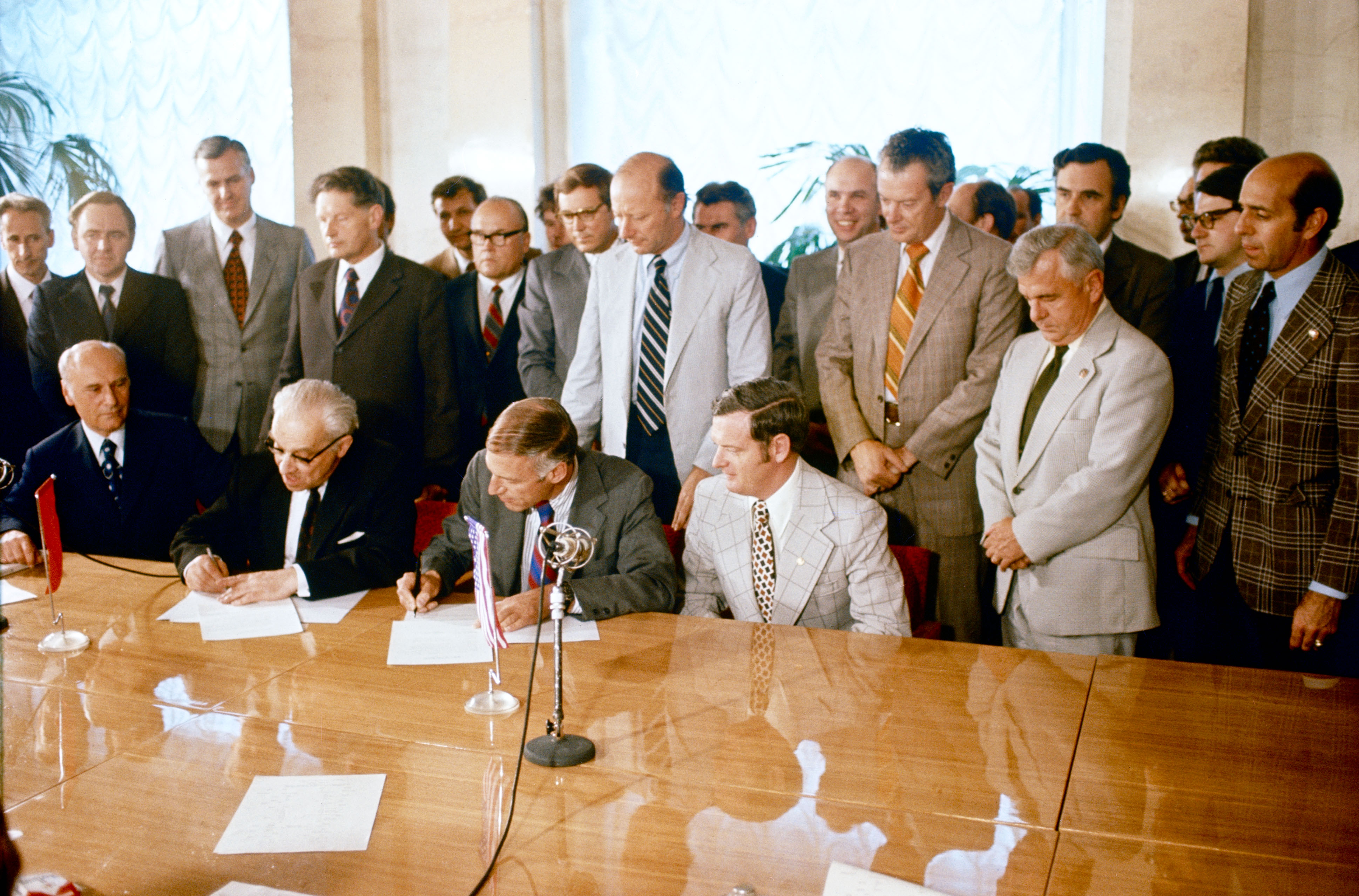 An overall view of the signing of the Apollo-Soyuz Test Project (ASTP) joint flight readiness review in ceremonies on May 22, 1975 in Moscow. Academician Vladimir A. Kotelnikov (on left) and NASA Deputy Administrator George M. Low (in center) are seen affixing their signatures to the ASTP document. Kotelnikov is the Acting President of the USSR Academy of Sciences. Seated at far left is Professor Konstantin D. Bushuyev, the Soviet Technical Director of ASTP. Dr. Glynn S. Lunney, the U.S. Technical Director of ASTP, is seated on Dr. Low's left. Arnold W. Frutkin (in light jacket), NASA Assistant Administrator for International Affairs, is standing behind Dr. Low. Academician Boris N. Petrov (in dark suit), Chairman of the USSR Council for International Cooperation in the Exploration and Use of Outer Space, is standing behind Kotelnikov. The signing of the agreement took place at the Presidium of the Academy of Sciences in Moscow.